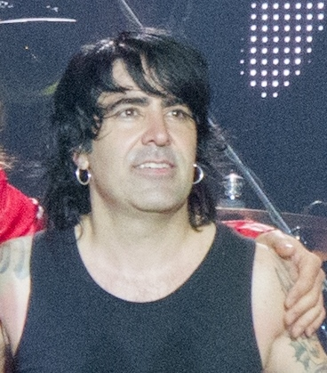 Picture of Alex González of Maná in concert in Rock in Rio in Madrid in 2012.